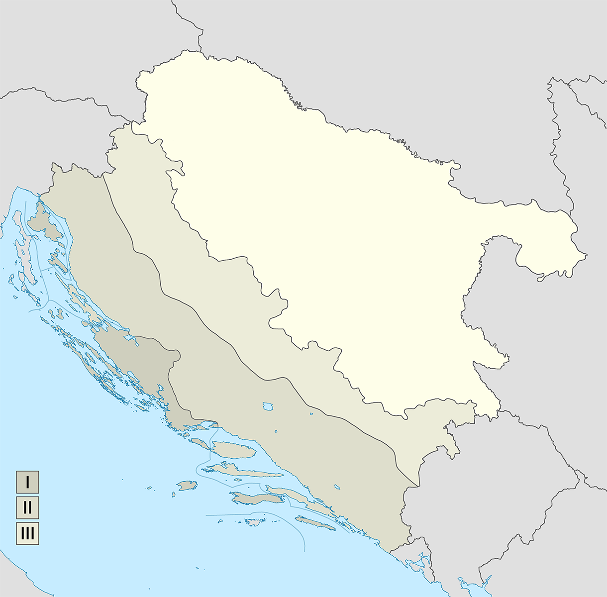 Locator Map of the German and Italian Occupation Zones in NDH 1941. Dashed line is the demarcation between German and Italian troops. Dotted line is the boundary of the Croatian demilitarised zone.